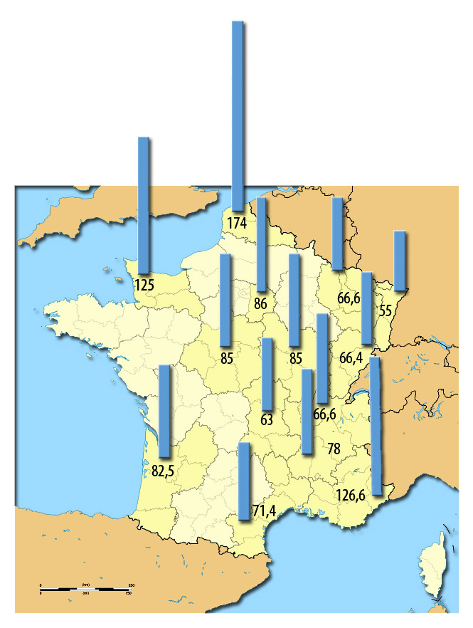 Cornparison of the iodine content in urine in France in microgramme/day For some regions and departments of France, average levels of urine iodine (iodide), measured in micrograms per liter, in the French population at the end of the twentieth century (1980 to 2000); according to Mornex, 1987 and LeGuen & al. 2000, quoted by Le Guen et al. (2001). Ioduria may reflect the average iodine uptake and / or a possible difficulty of the body in fixing iodine.